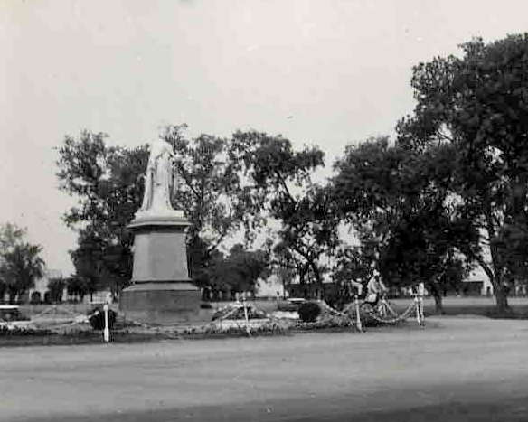 Original caption: 1939 : Queen Victoria's Statue, Rawalpindi. The statue, sculpted in England, was sited on a pedestal at the junction of The Mall and the Murree Road. It is now in the grounds of the British High Commision.